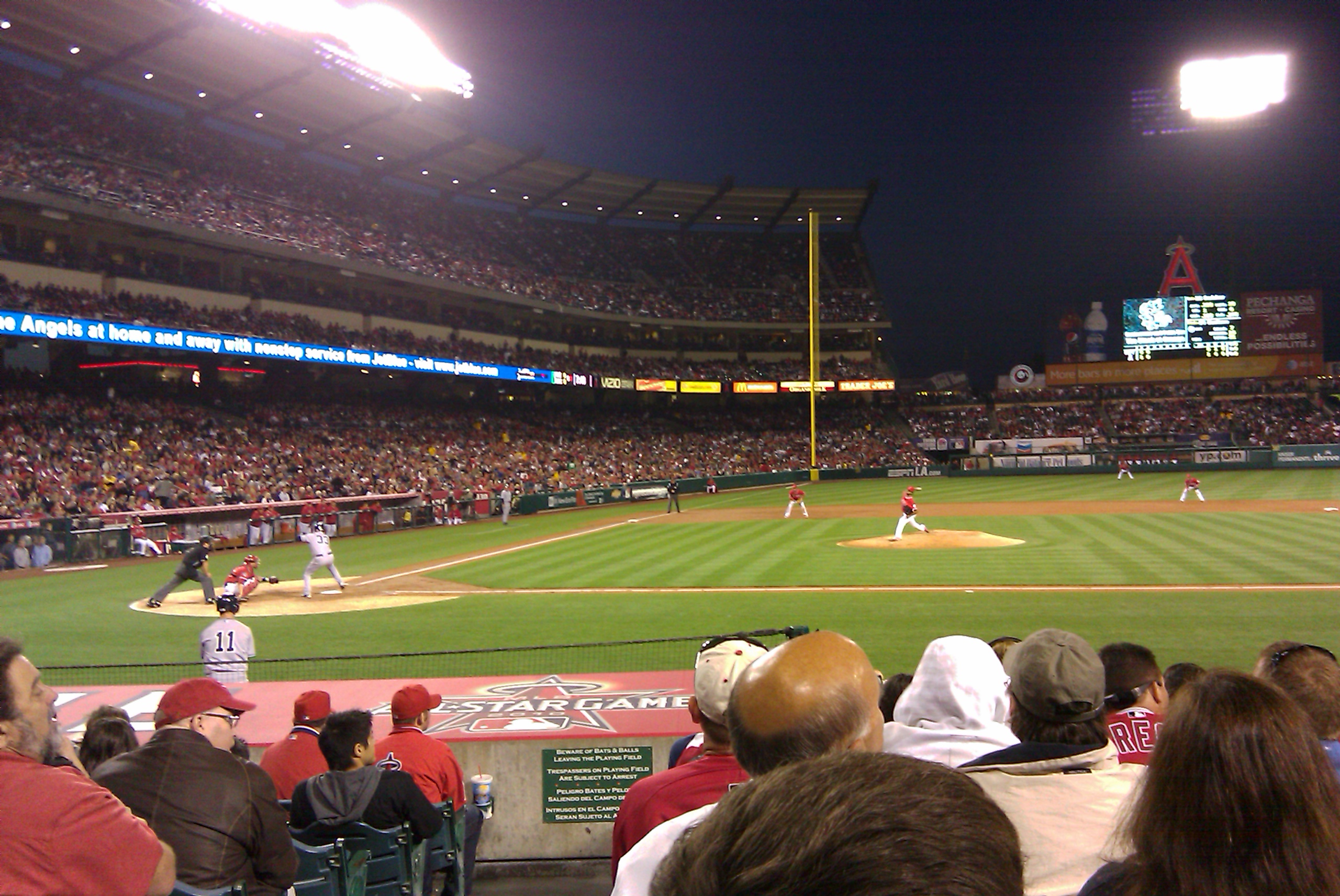 Angels pitcher Ervin Santana delivers a pitch to Nick Swisher of the Yankees at Angel Stadium on April 23, 2010. Brett Gardner waits on deck.